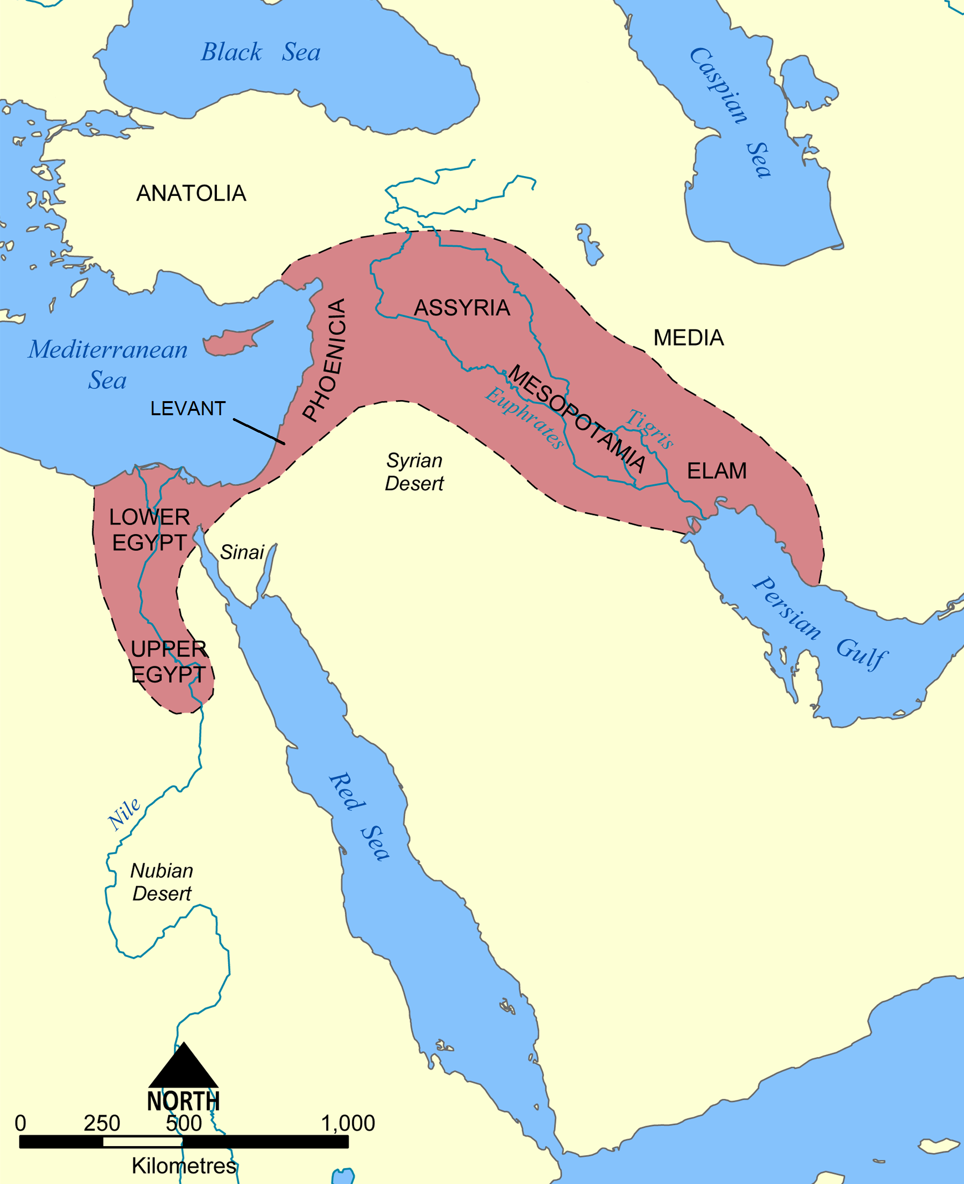 This map shows the location and extent of the Fertile Crescent, a region in the Middle East incorporating Ancient Egypt; the Levant; and Mesopotamia